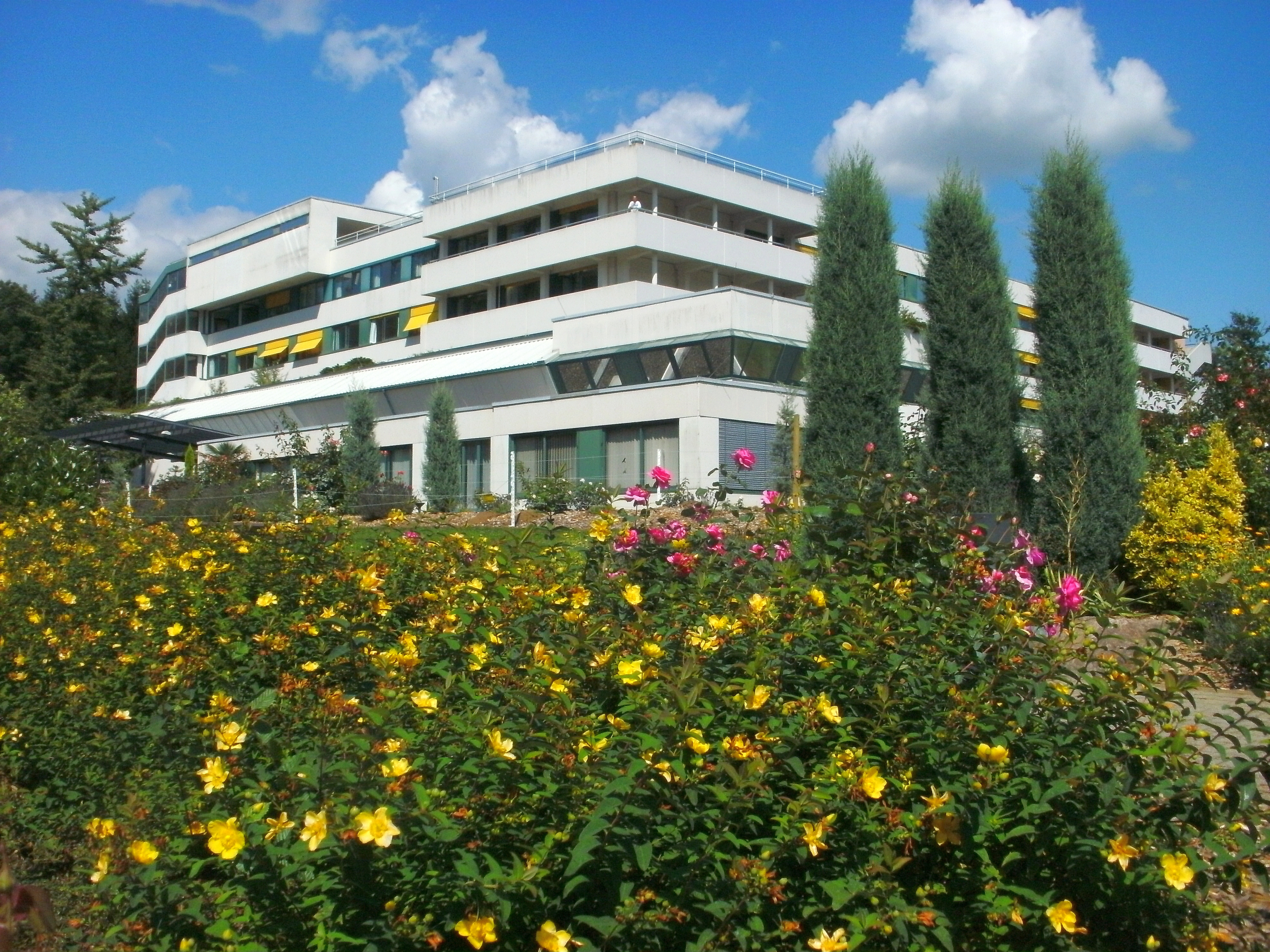 District Hospital of Landkreis Lörrach in Rheinfelden (Baden), Germany.